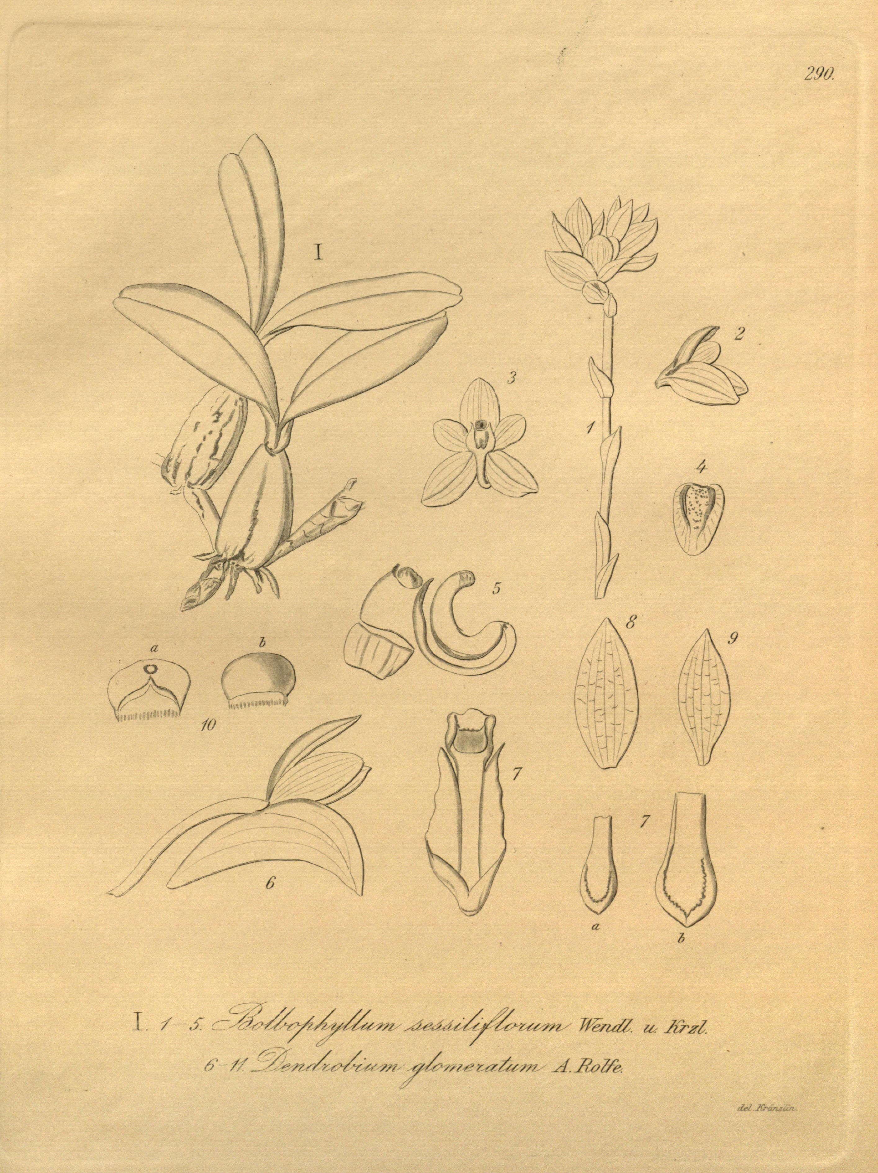 Illustration of I, 1-5. Bulbophyllum molossus (as syn. Bulbophyllum sessiliflorum, spelled by Kränzlin Bolbophyllum sessiliflorum) 6 - 11. Dendrobium glomeratum